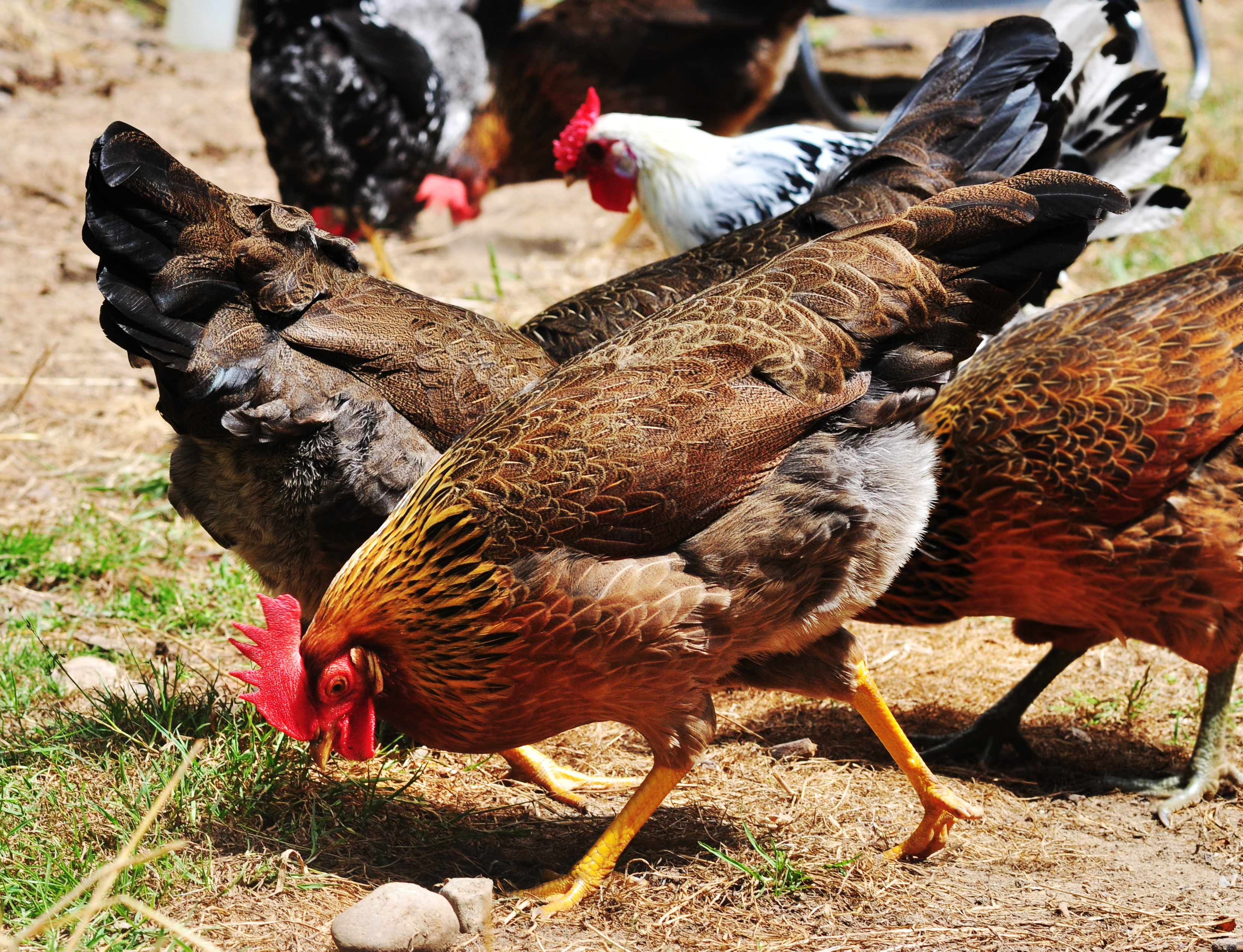 Brown Leghorn and other chickens. Silver Spangled Hamburg cockerel in background.